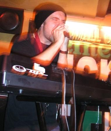 This was taken by me during the live show in Zenica, BiH.